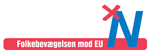 logo of the danish political party Folkebevaegelsen mod EU